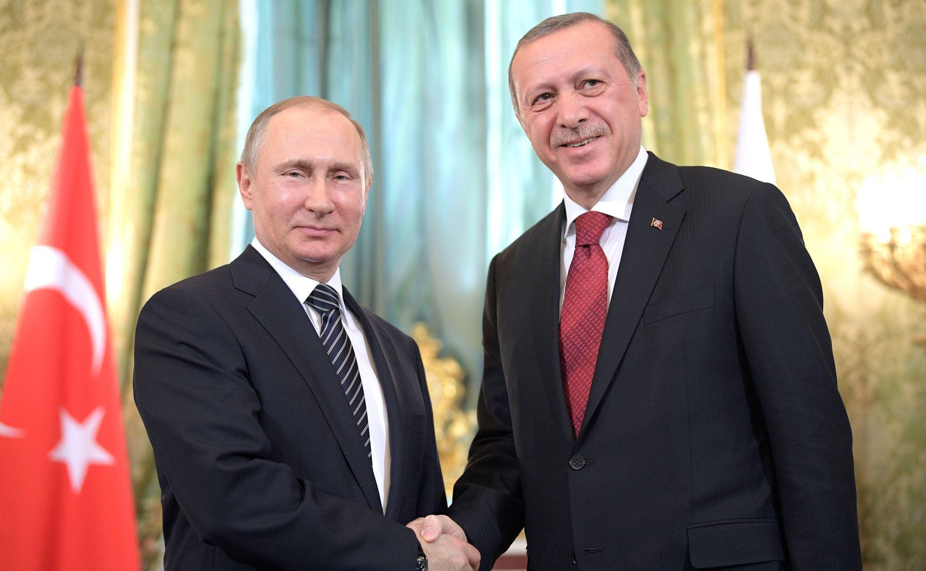 Vladimir Putin met with Recep Tayyip Erdoğan for the sixth meeting of the High-Level Russian-Turkish Cooperation Council, Moscow, Russia.